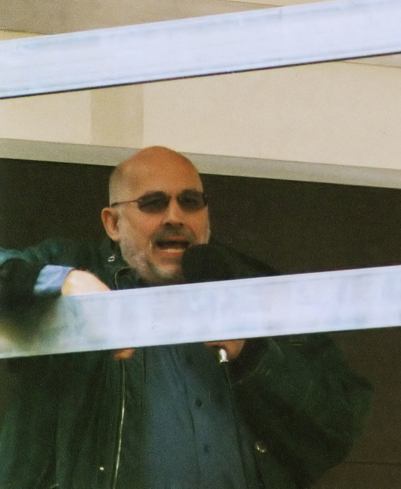 German neonazis Horst Mahler (left) and Christian Worch (right) on a demonstration in Leipzig.